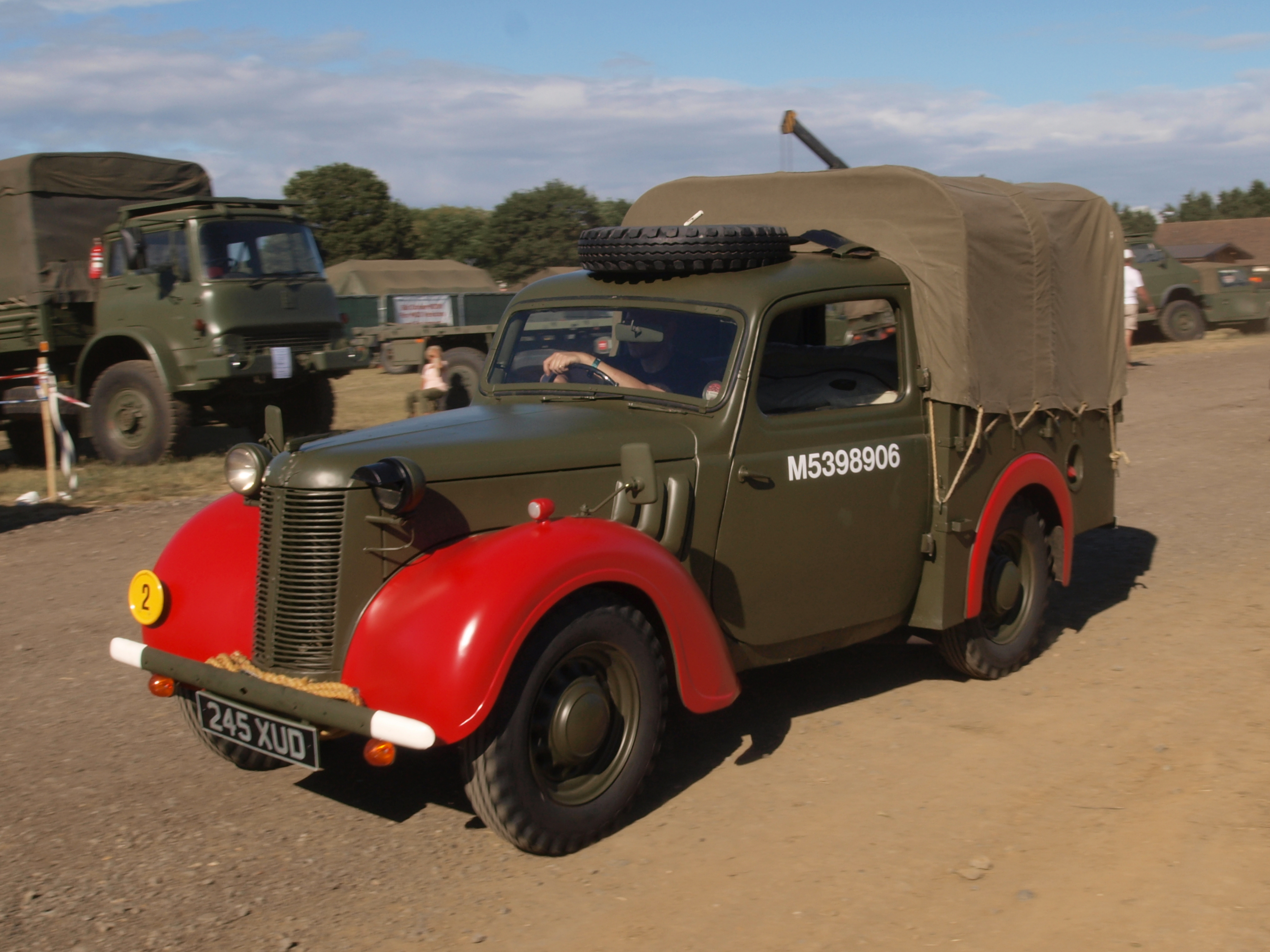 Austin 10hp "Tilly"